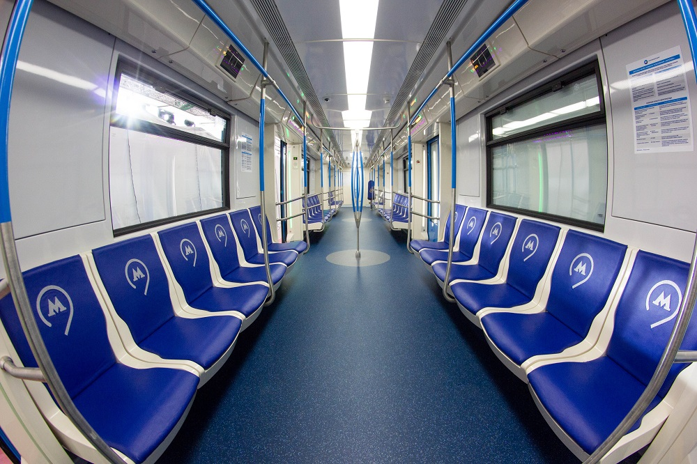 Interior of metro train 81-765 «Moscow»